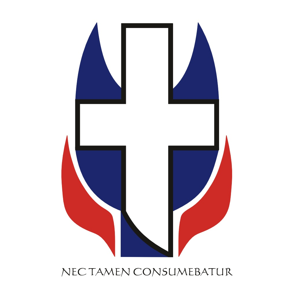 The Uniting Presbyterian Church in Southern Africa Logo